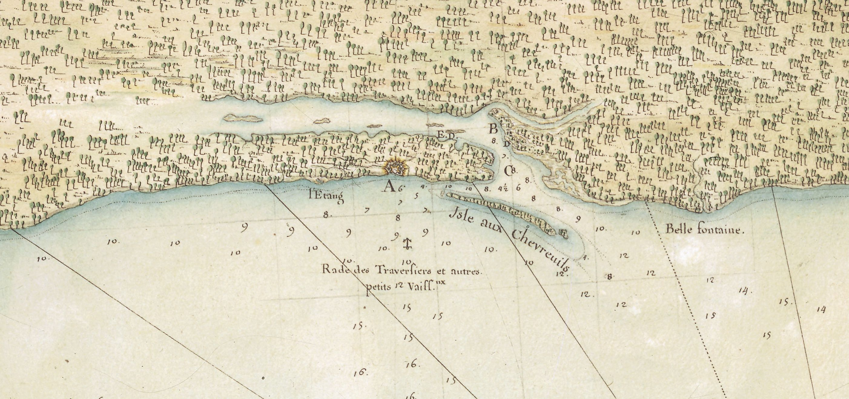 Map of the new Biloxy Coast, french 18th century map. Zoom on Biloxy.